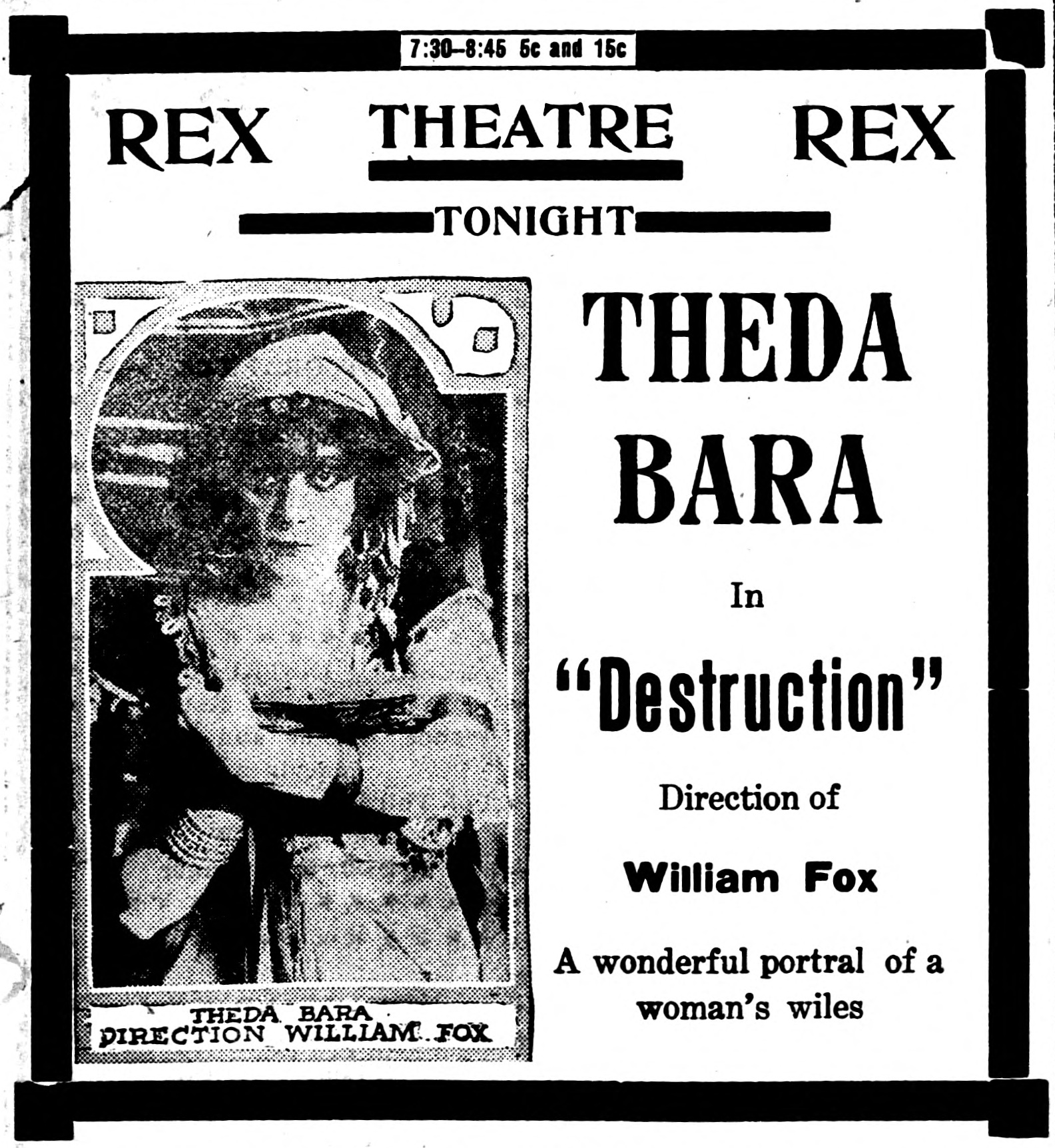 Destruction is a 1915 silent drama film directed by Will S. Davis and starring Theda Bara. The film is now considered to be lost. This is a newspaper advertisement for the film.